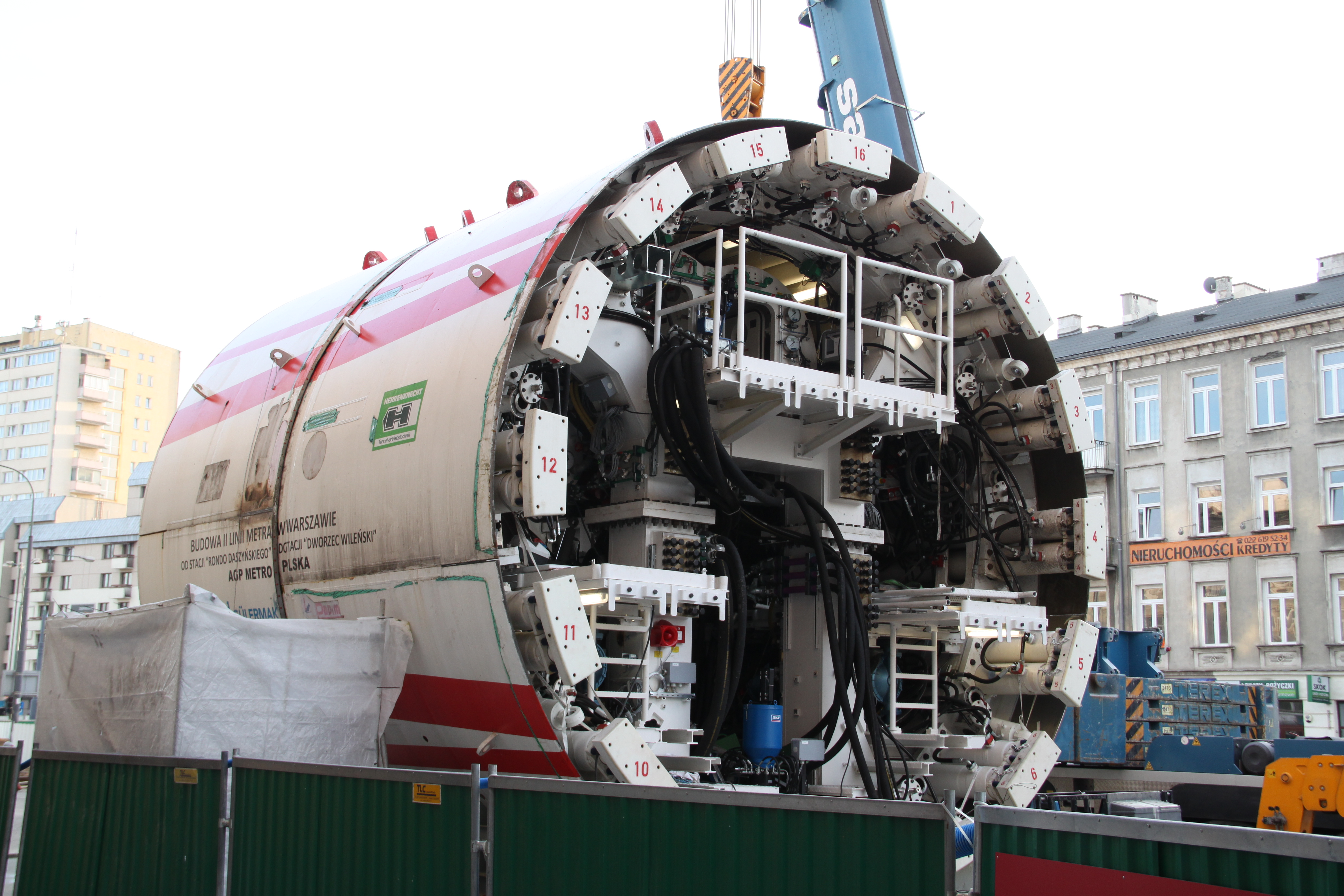 Tunnel boring machine in Warsaw, Poland